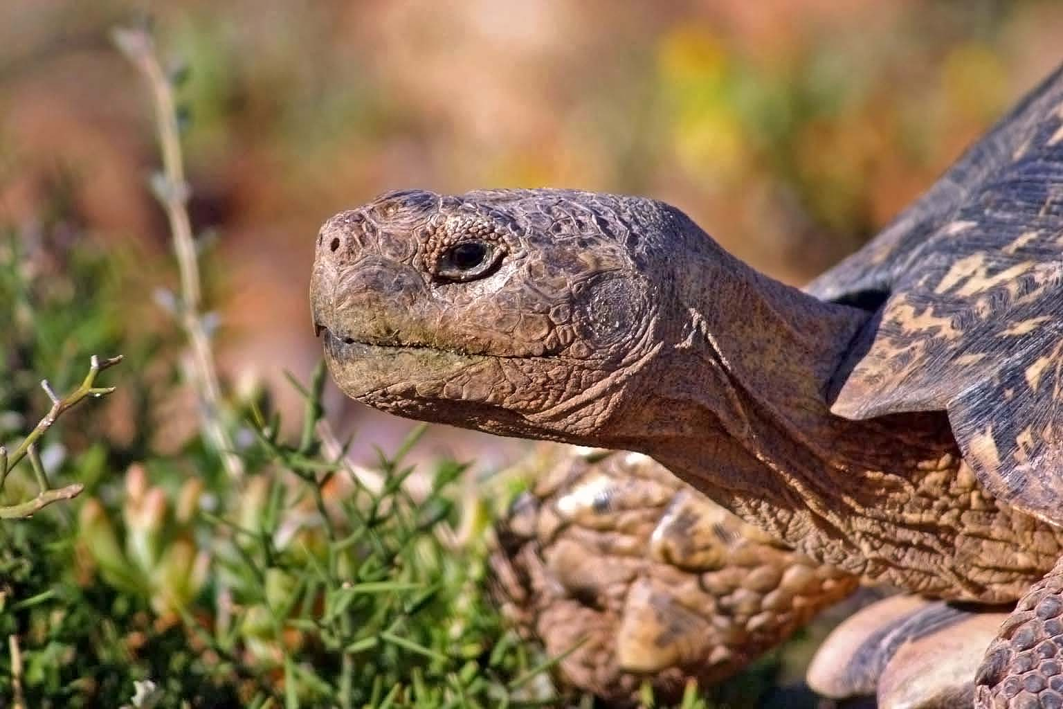 The head of a wild Leopard tortoise (Stigmochelys pardalis) in Addo Elephant Park, South Africa